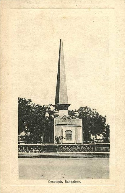 Cenotaph in memory of the Officers and Men who fell in the Siege of Bangalore, 1791, which was vandalised on 28 October 1964